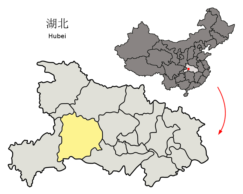 Location of Yichang Prefecture (yellow) within Hubei Province of China. Map drawn in december 2007 using various sources, mainly : Hubei Province administrative regions GIS data: 1:1M, County level, 1990 Hubei Counties map from